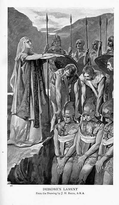 Illustration of Deirdre's lament by J.H.F. Bacon. From: Squire, Charles (n.d.), “Chapter 13: Some Gaelic Love-Stories”, in Celtic Myth And Legend Poetry And Romance, London: Gresham Publishing Company, page 198. Originally published under the title The Mythology of the British Islands, London: Blackie and Son, 1905.